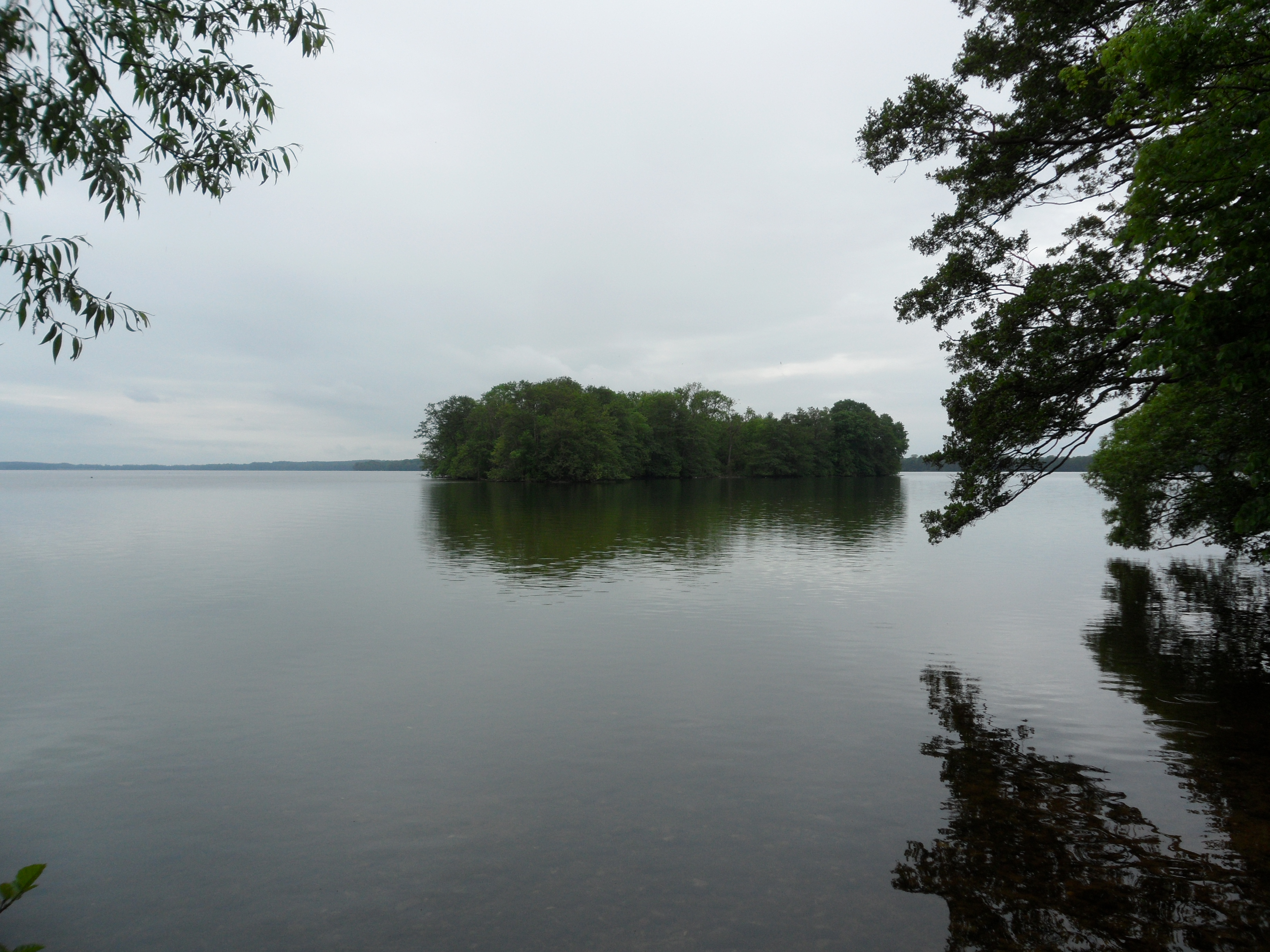 The island Olsburg in the Großen Plöner See